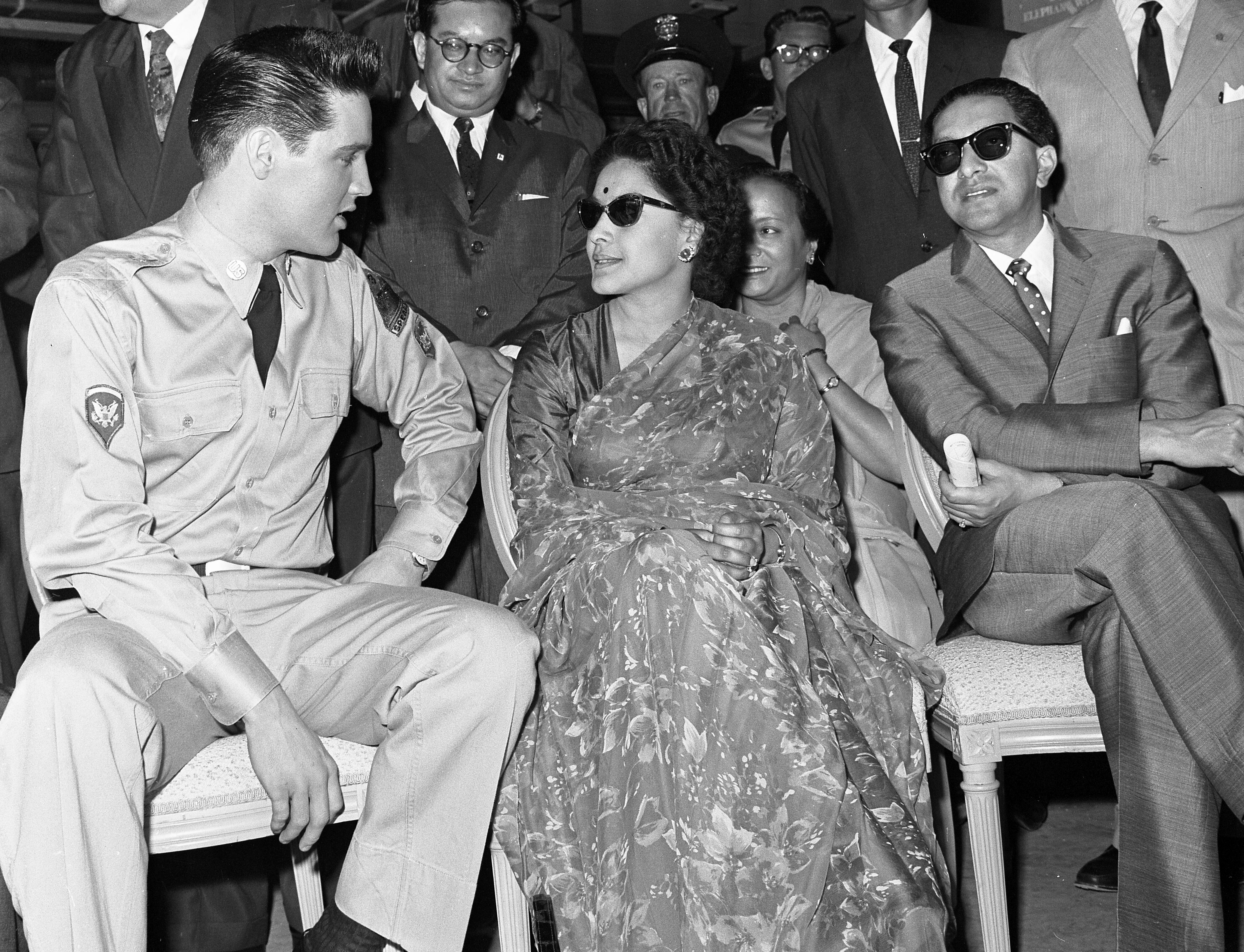 Title: Elvis Presley entertains King Mehendra and Queen Ratna of Nepal on a movie set in Los Angeles, Calif., 1960 Published caption:ROYAL GUESTS-Elvis Presley entertains King Mehendra and Queen Ratna of Nepal on a movie set. The royal couple plan to visit Disneyland today, go to El Segundo tomorrow to see refinery. Publication:Los Angeles Times Publication date:Wed., May 11, 1960 Source:Los Angeles Times photographic archive, UCLA Library Note about non-renewal of copyright: [1]